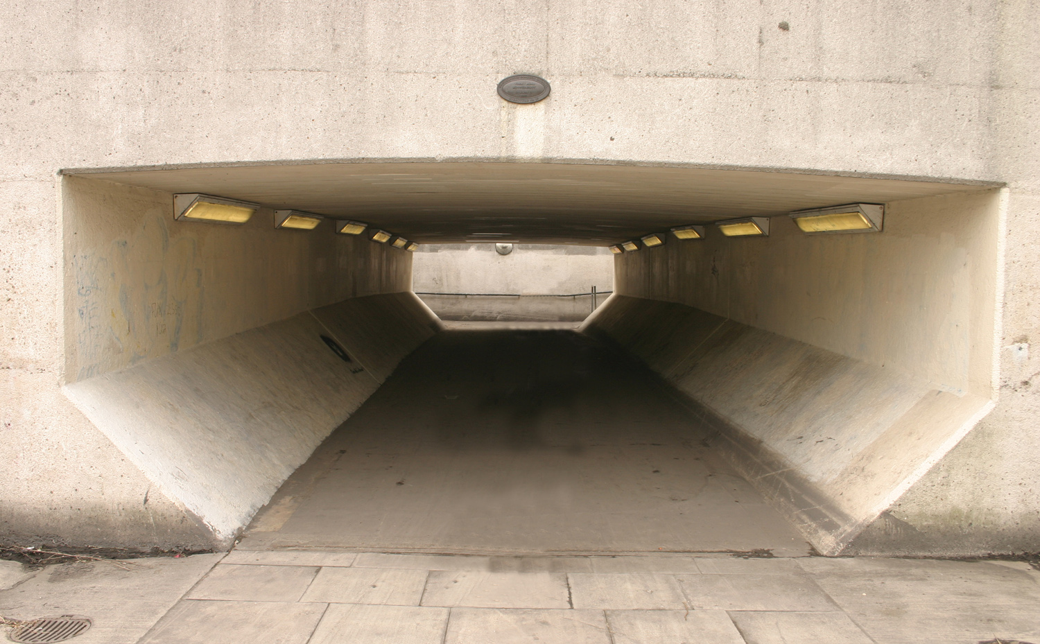 Underpass in Wandsworth, London, featured in A Clockwork Orange.